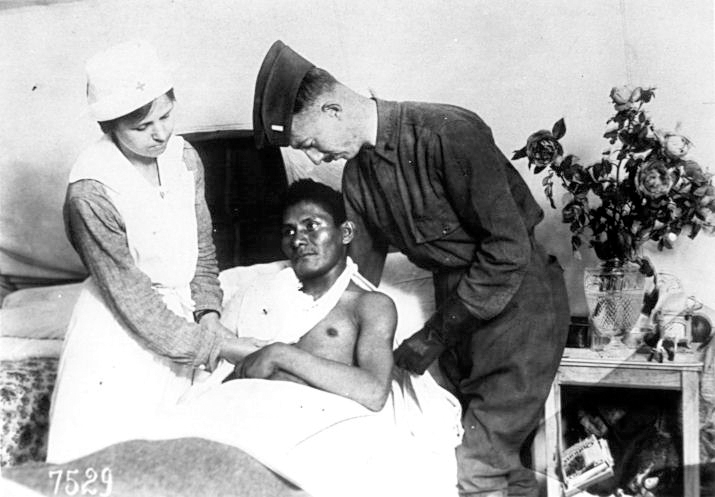 [715x497 8-bit grayscale JPEG, 50205 bytes] Wounded Choctaw soldier in the U.S. service is attended. World War I, U.S. National Red Cross Hospital No. 5, Auteuil, France, c.1917-1918 [photographic reproduction/Images from the History of Medicine (IHM)].